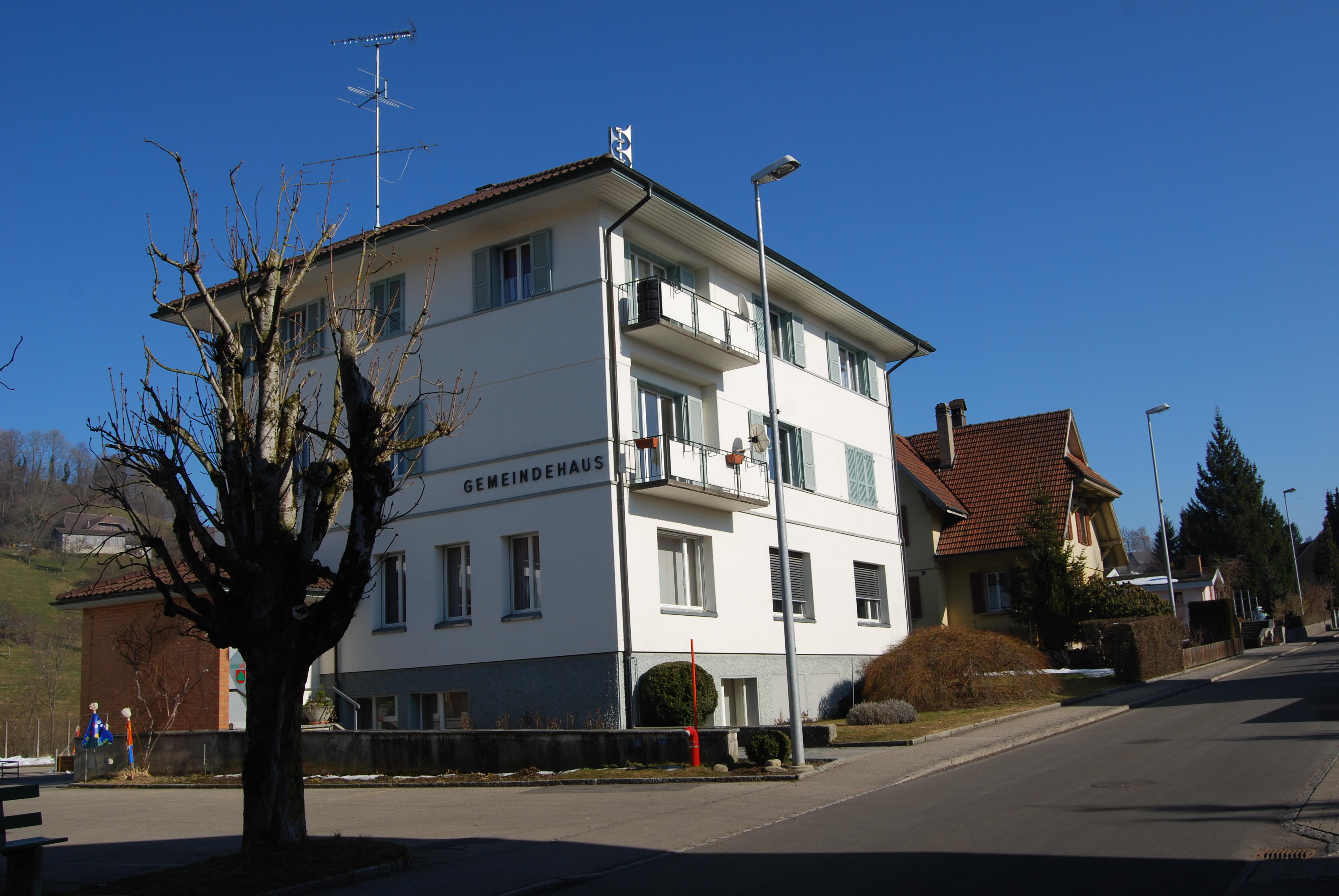 Eriswil, canton of Bern, SwitzerlandEsperanto: Eriswil, Kantono Berno, Svislando